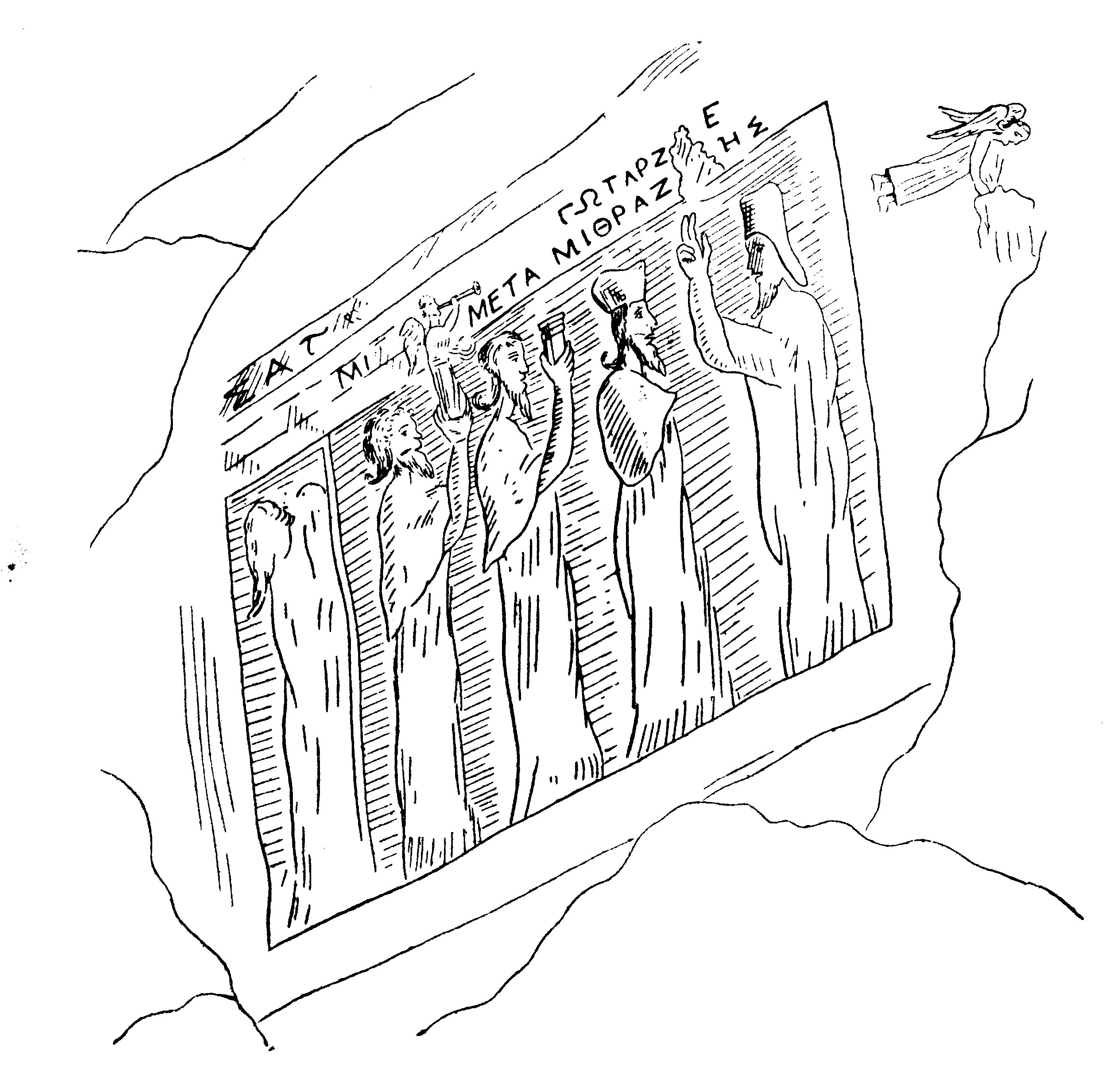 Behistun I by Grelot Behistun I parthian Era rock relief aka Mithridate II’s audience scene. Behistun I (123-88/87 BCE) has been about completely erased in 1684 by a the carving of an inscription written in Persian, paying tribute to a Safavid local governor. From the initial panel, we can just distinguish a character and 2 caped silhouettes on the left, and a Greek inscription above. Fortunately, this unique drawing made by Grelot in 1673 let us know how this relief looked like. Although less famous, Grelot was attached to Jean Chardin’s travel in the near East, and performed many observations and draws. The scene shows on the right, King Mithridate II standing, overlooking 4 noblemen, may be some of his satraps. The king hails his hand up with 2 sticky fingers, some of the other characters hold some objects, one being probably a cup, another being a Nikë, Greek divinity testifying as the above inscription, of the Greek influences the Parthian art included from the Seleucids. See the image of Behistun I & II